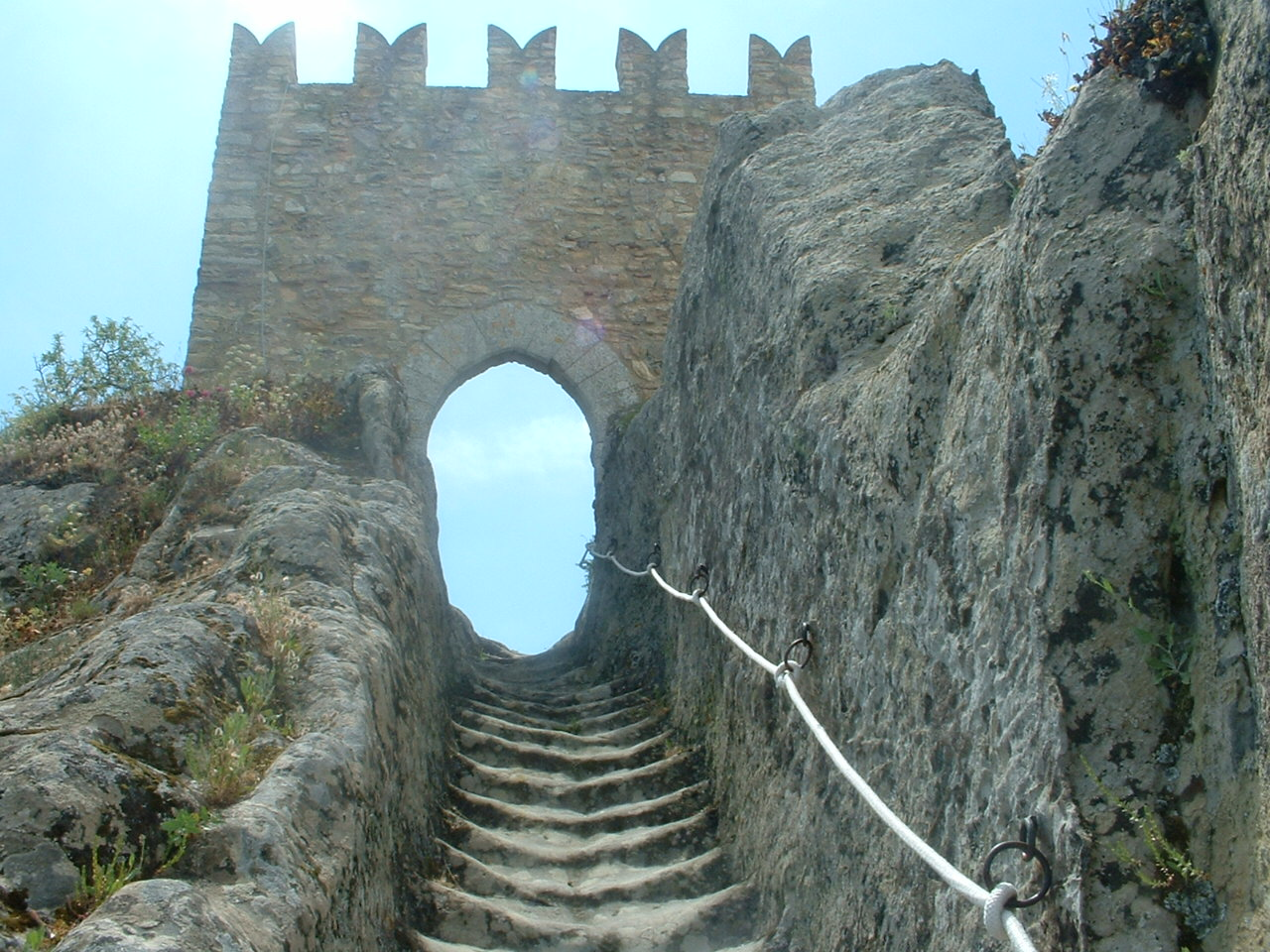 Sperlinga (EN), the tower of castle.